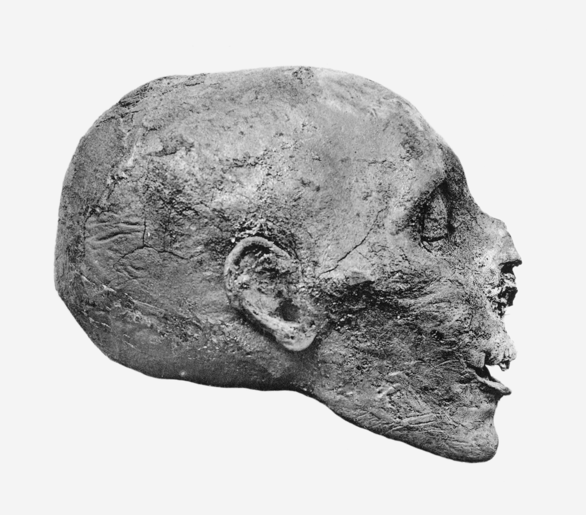 Head of mummy of parapoh Thutmose III (profile view).